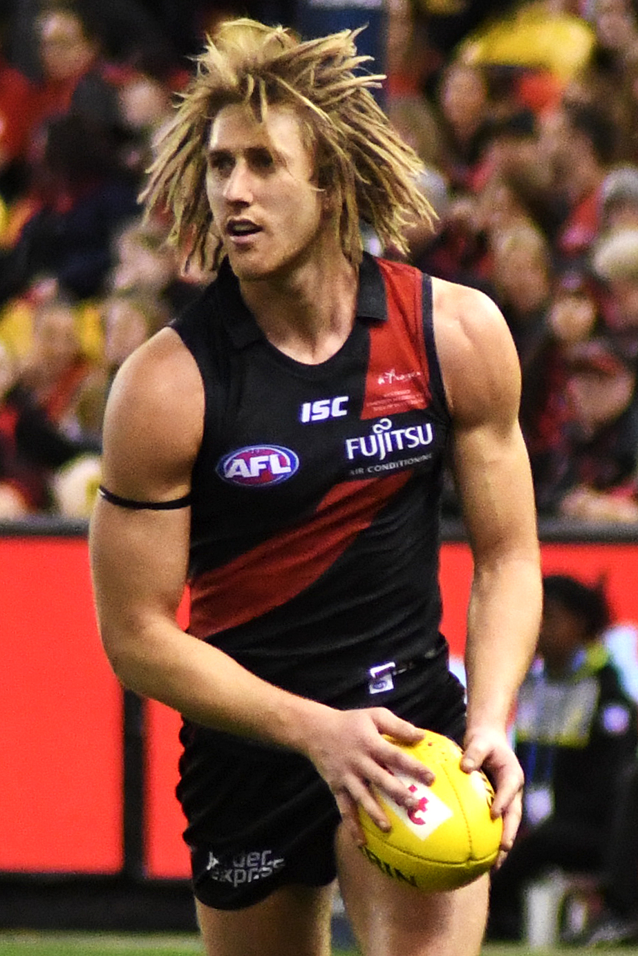 Dyson Heppell of Essendon during the 2018 AFL round 21 match between Essendon and St Kilda at Etihad Stadium on Friday, 10 August 2018 in Melbourne, Victoria.